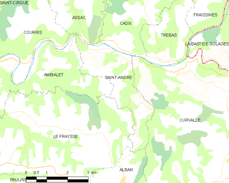 Map of French municipality Saint-André